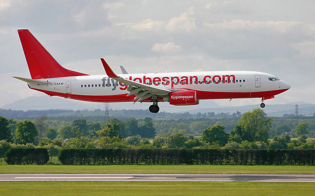 This image was taken by Martin J.Galloway. Donated from the British Photo Encyclopedia Dotonegroup : talk. Flyglobespan Boeing 737 version 8Q8, registration number G-SAAW, landing on Runway 05 Glasgow International Airport, Scotland.